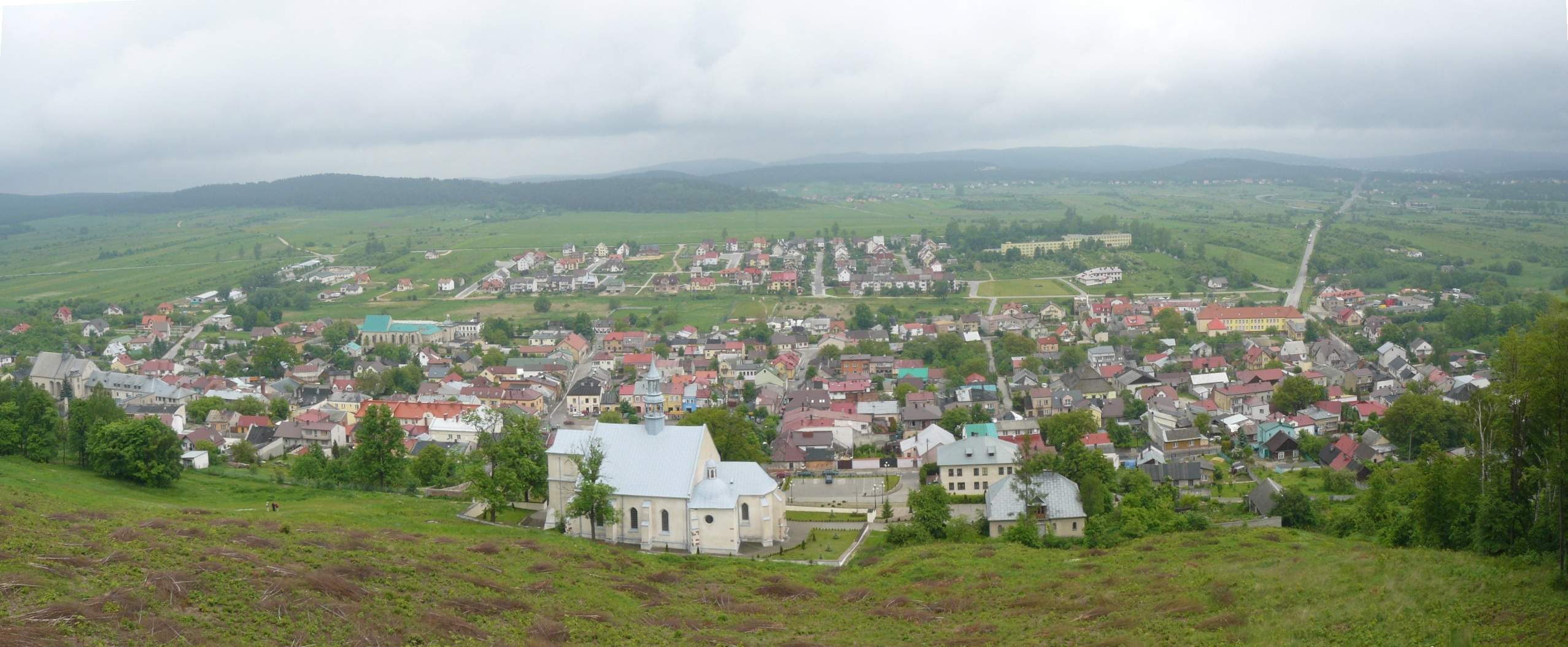 Chęciny - panorama of the town from castle's walls